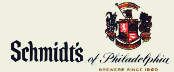 Schmidt's of Philadelphia Logo